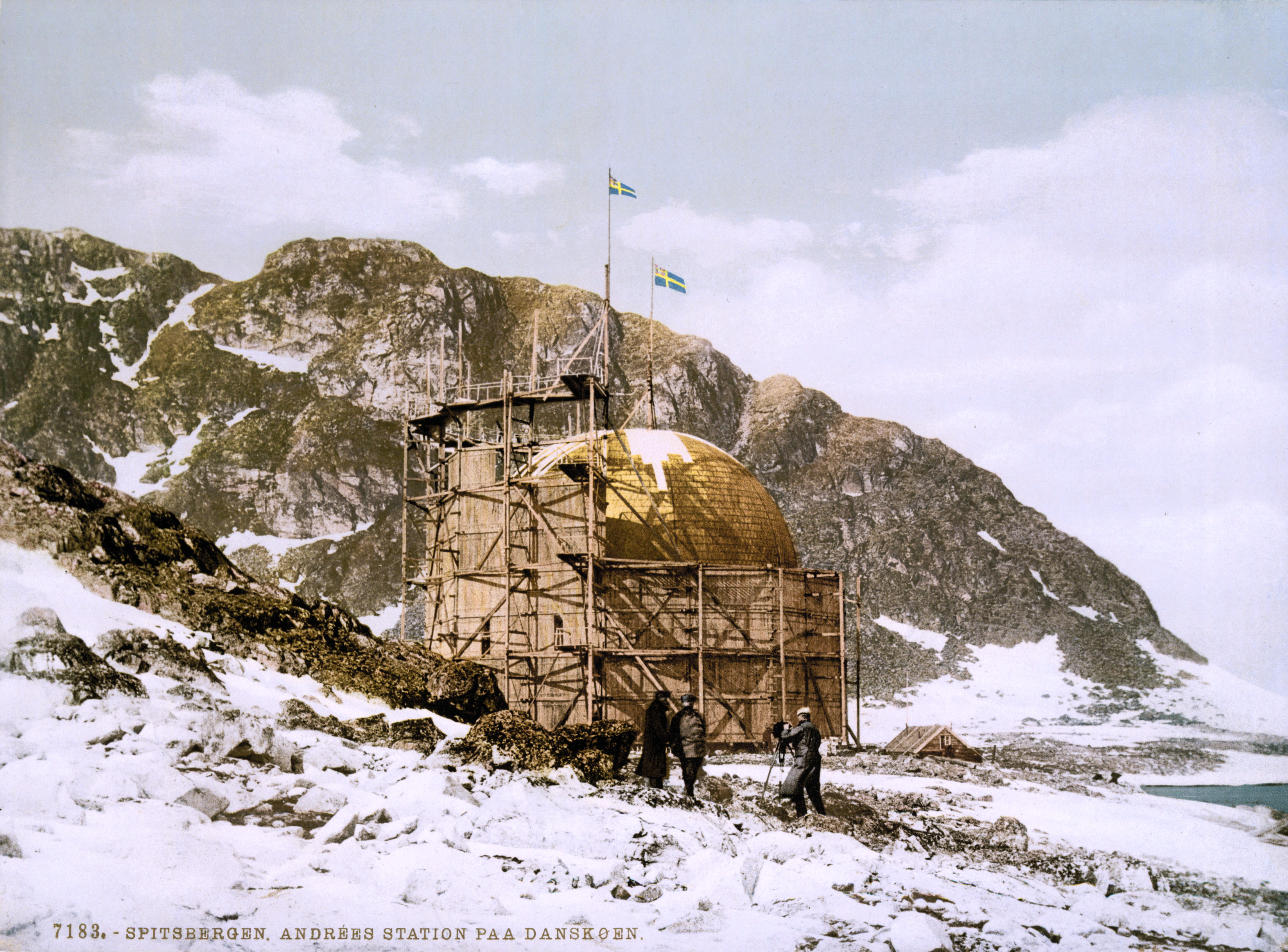 The half-dismanted hangar holding the balloon for S. A. Andrée's Arctic expedition near Danskoen, Spitzbergen, Norway on July 11, 1897, just before it was heading off for disaster. Taken from the Detroit Publishing Co. Collection at the U.S. Library of Congress. [PD] This picture is in the public domain.